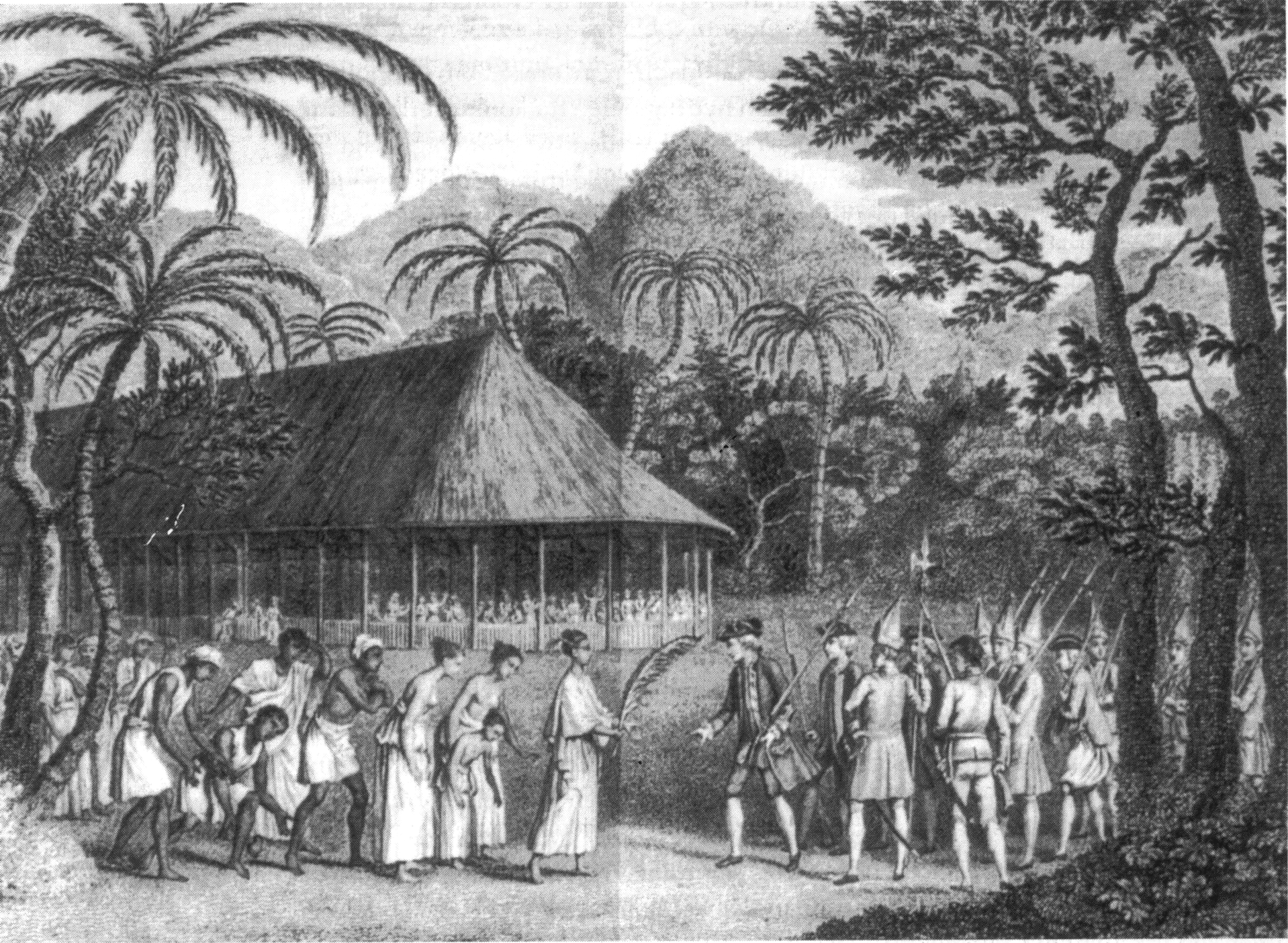 Captain Wallis meeting with Queen Oberea in Tahiti cirka 1772.